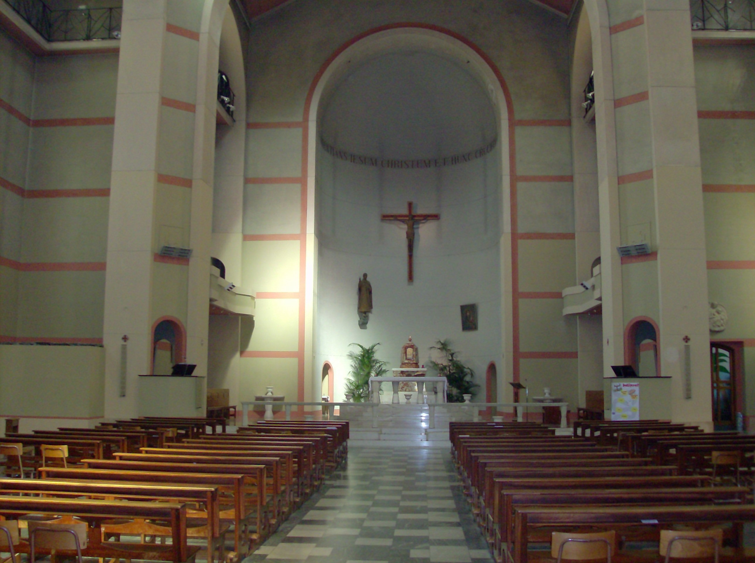 St. Paul's church, Genoa - Internal view